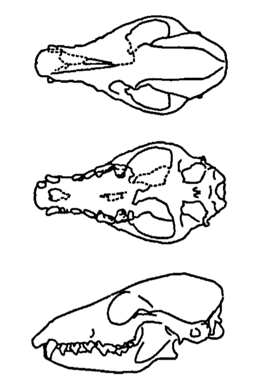 Skull of Cynotherium sardous